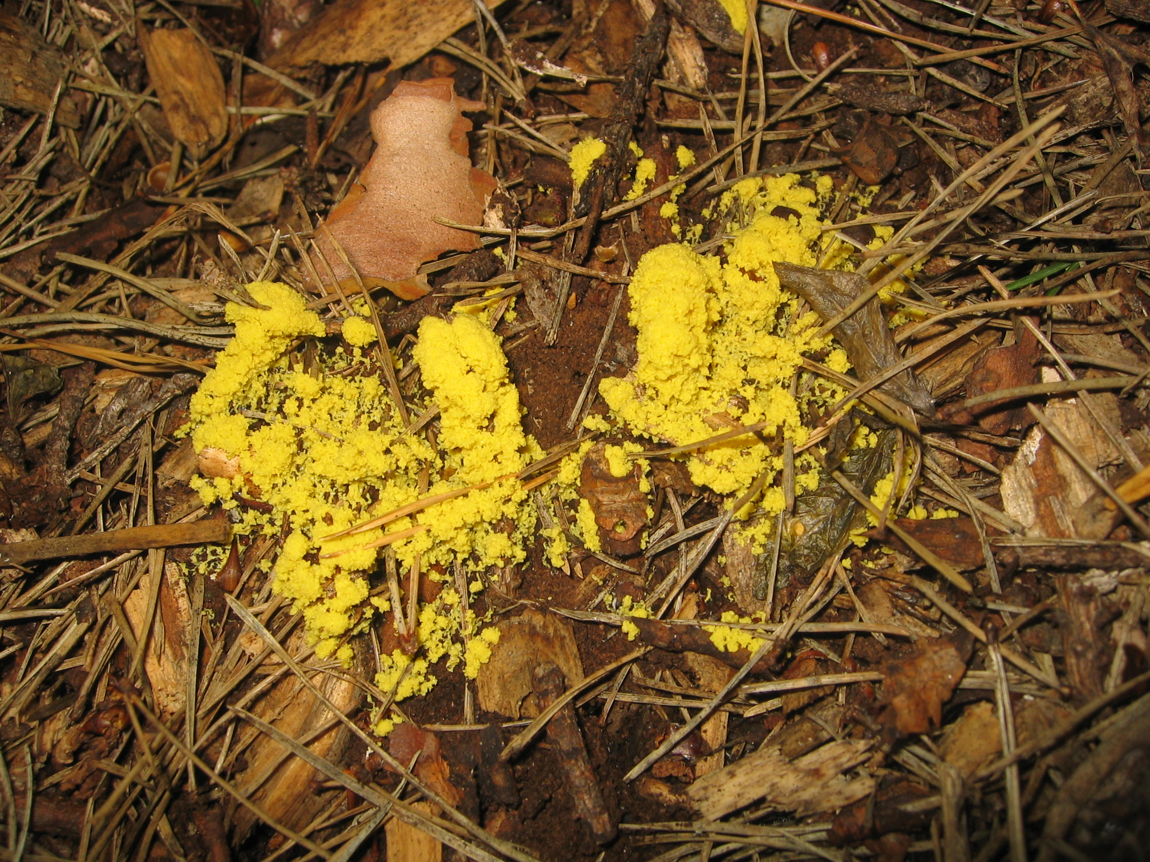 Yellow slime mould, Fuligo rufa (young), (Myxogastria)